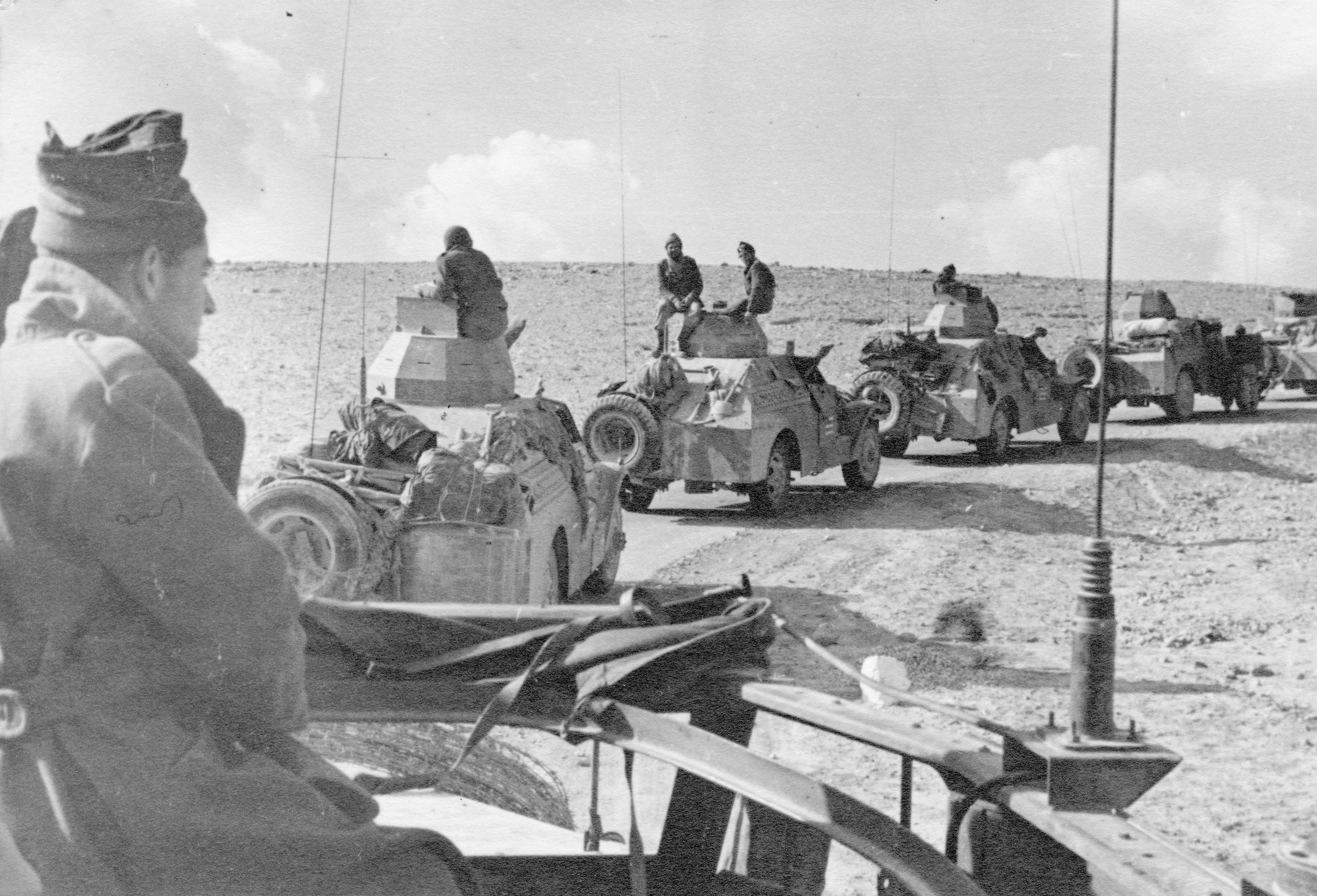 The Palmach, Israel Defense Forces